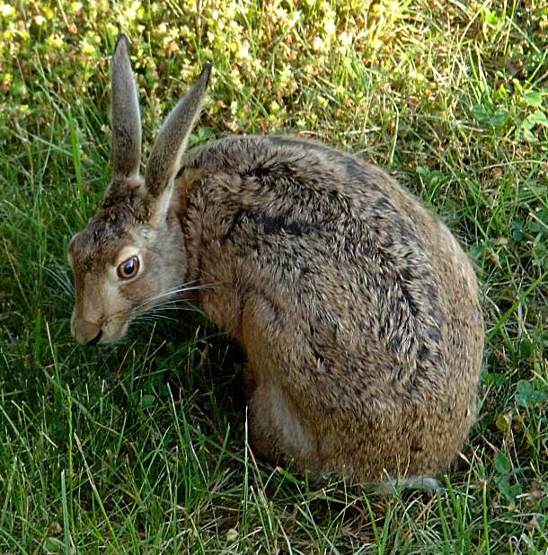 European hare (Lepus europaeus)